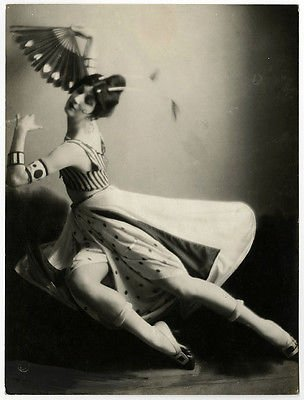 1918 photograph of American dancer Desiree Lubovska as captured by Marcia Mishkin Stein. A whimsical avant-garde portrait, Lubovska is an erotic Orientalist ballerina dream as she strikes a dramatic pose in a risqué costume. This image was used to help promote Lubovska's turn in Charles Dillingham's musical spectacle Everything that played at New York City's Hippodrome Theatre and was accompanied by music by John Phillip Sousa. Mlle. Lubovska, as she was known, was, like so many of the prominent figures in early 20th century American dance, a creature of her own creation. Born in Minnesota, Lubovska invented a mysterious Russian past as a way of capitalizing on the glamour of Pavlova, who was at the time, the reigning queen of ballet. Her romantic origin story also lent an air of mystery to her "Egyptian dances" as they were billed, and she went on to become the toast of New York, who modeled for fashion and fine art photographers such as Arnold Genthe, Edward Steichen and Baron de Meyer.